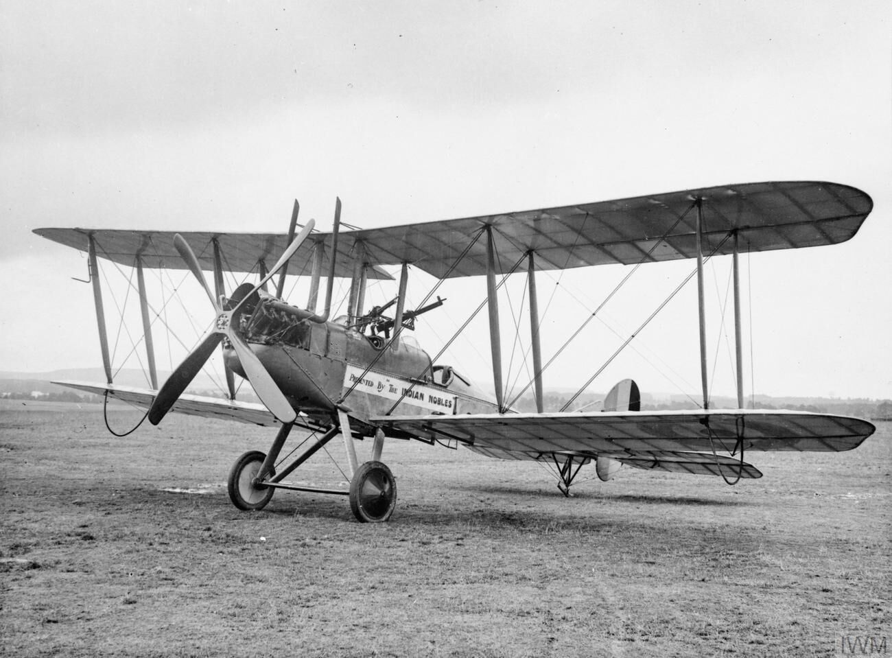 Photo of operational B.E.2c of the RFC in 1916/7. Original copyright probably belonged to the UK government (since private photography of service aircraft was forbidden at the time) - expired as per tag.